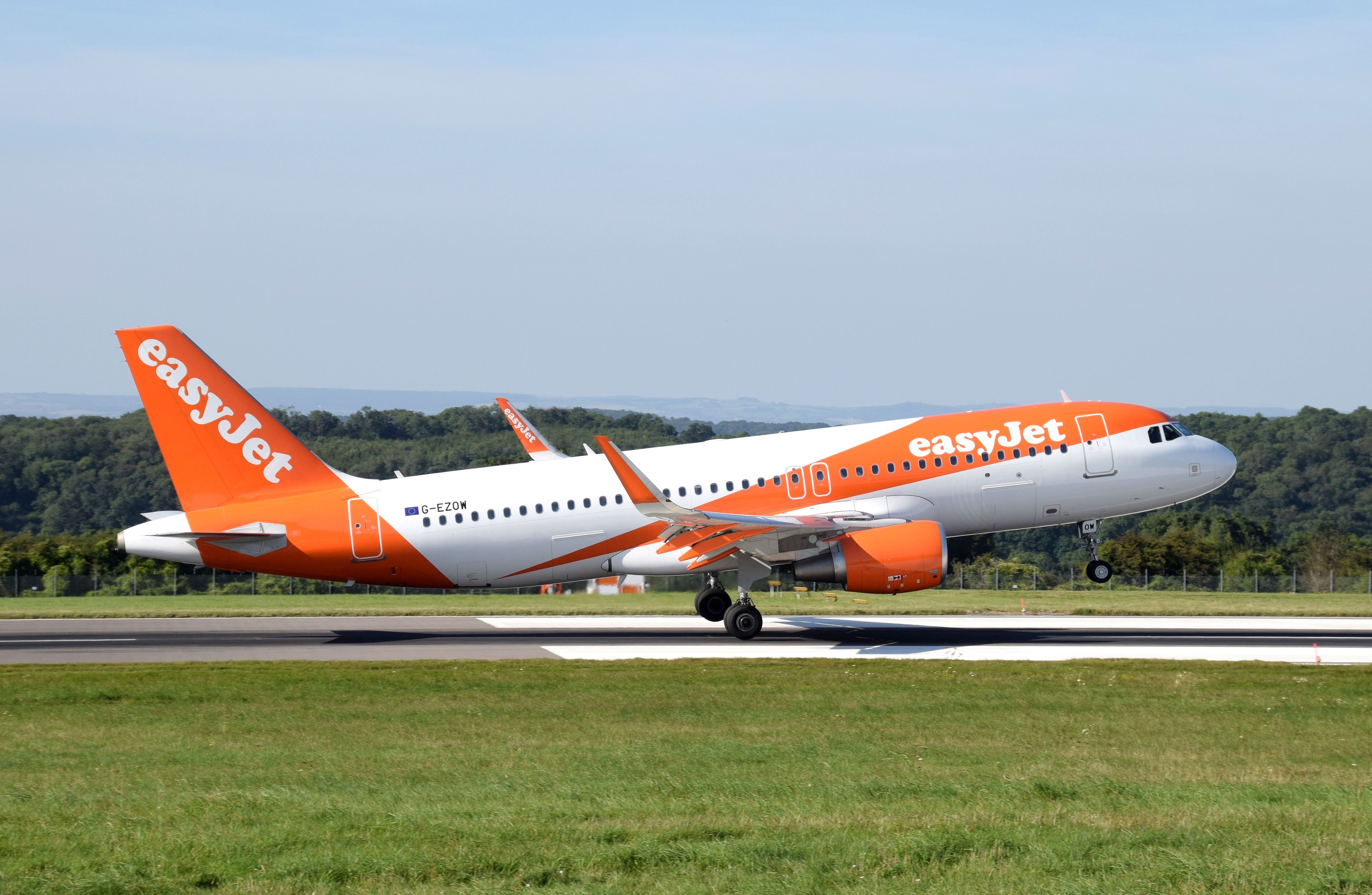 Airbus A320-200 of EasyJet (G-EZOW) lands at Bristol Airport, England. One wheel is touching before the other.